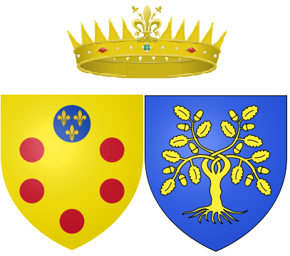 Arms of Vittoria della Rovere as Grand Duchess of Tuscany